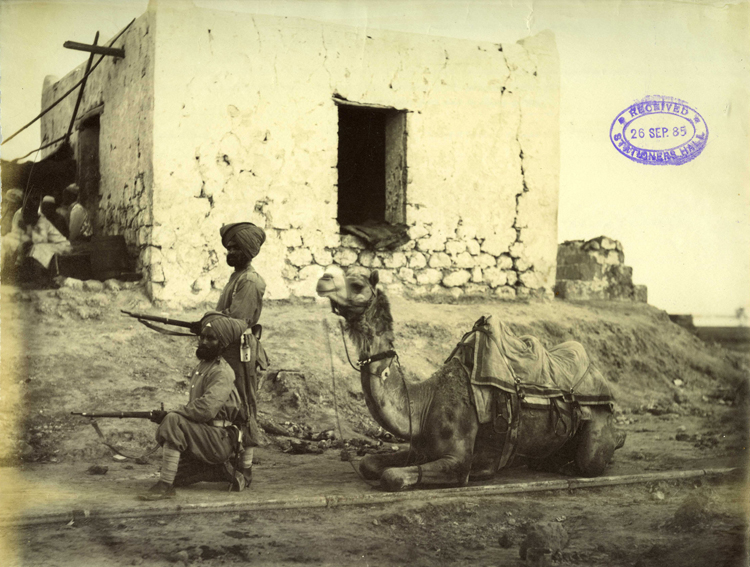 Description: "Photograph of Camel Corps, 2 Sikhs at the 'Ready'." Photograph taken by Felice Beato on the Nile Expedition to relieve Khartoum. Date: 1884/5 Our Catalogue Reference: COPY 1/373/371 This image is from the collections of The National Archives. Feel free to share it within the spirit of the Commons. For high quality reproductions of any item from our collection please contact our image library.